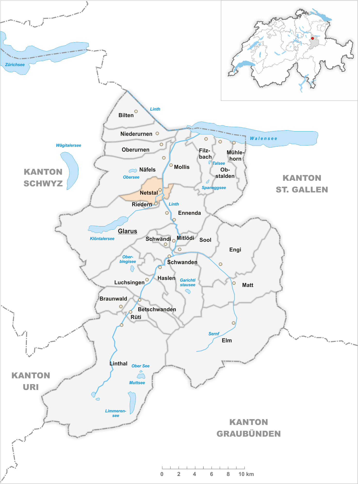 Municipality Netstal